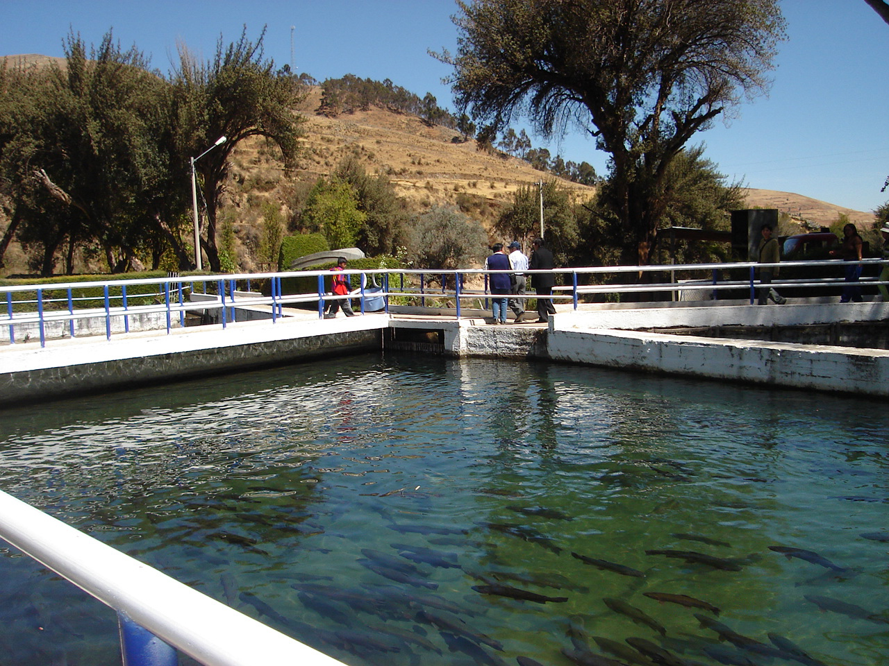 Trouts breedingground in Ingenio, Junín, Perú